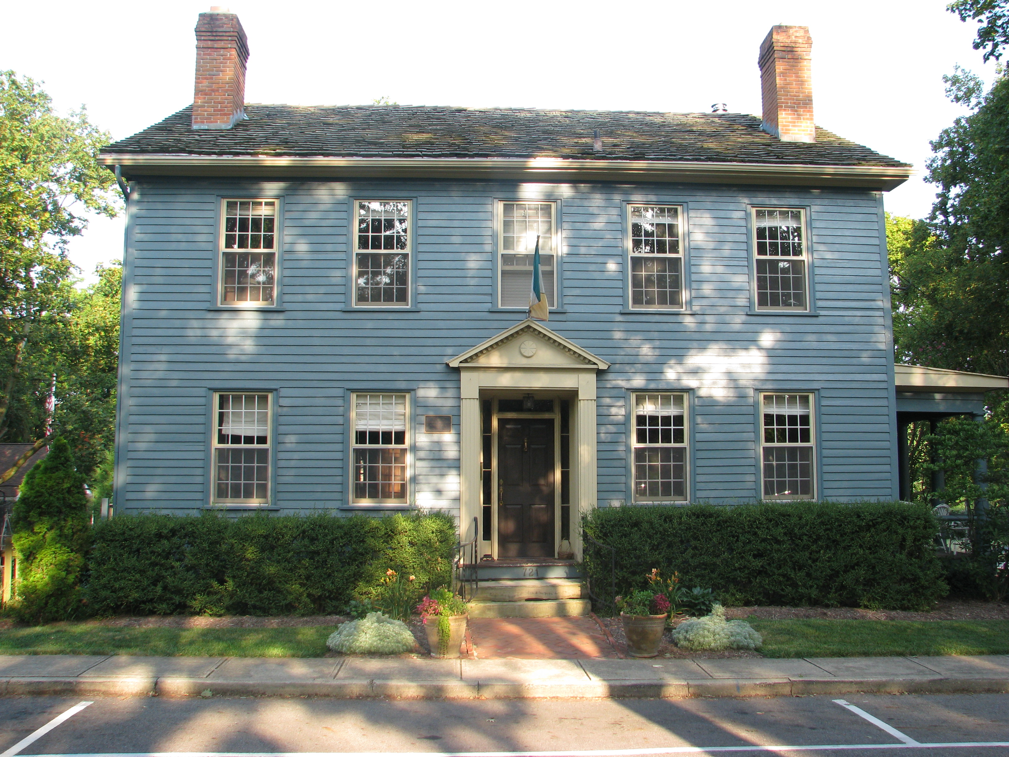 Demas Adams House in Franklin County, Ohio. On the National Register of Historic Places. Photo I took